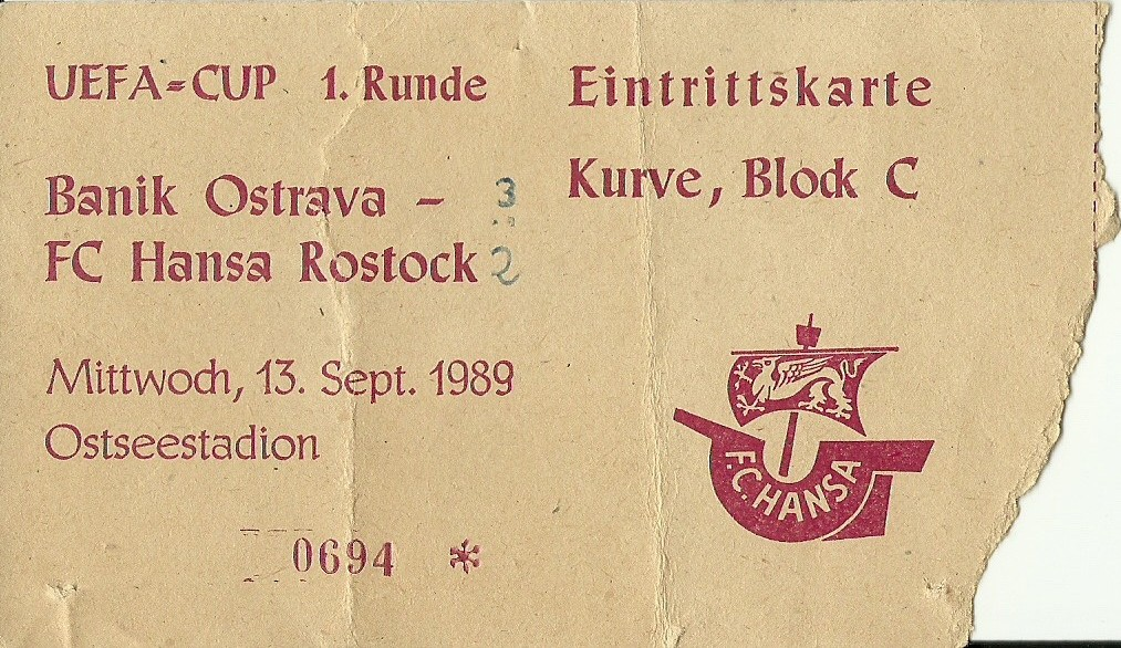 Eintrittskarte Hansa Banik